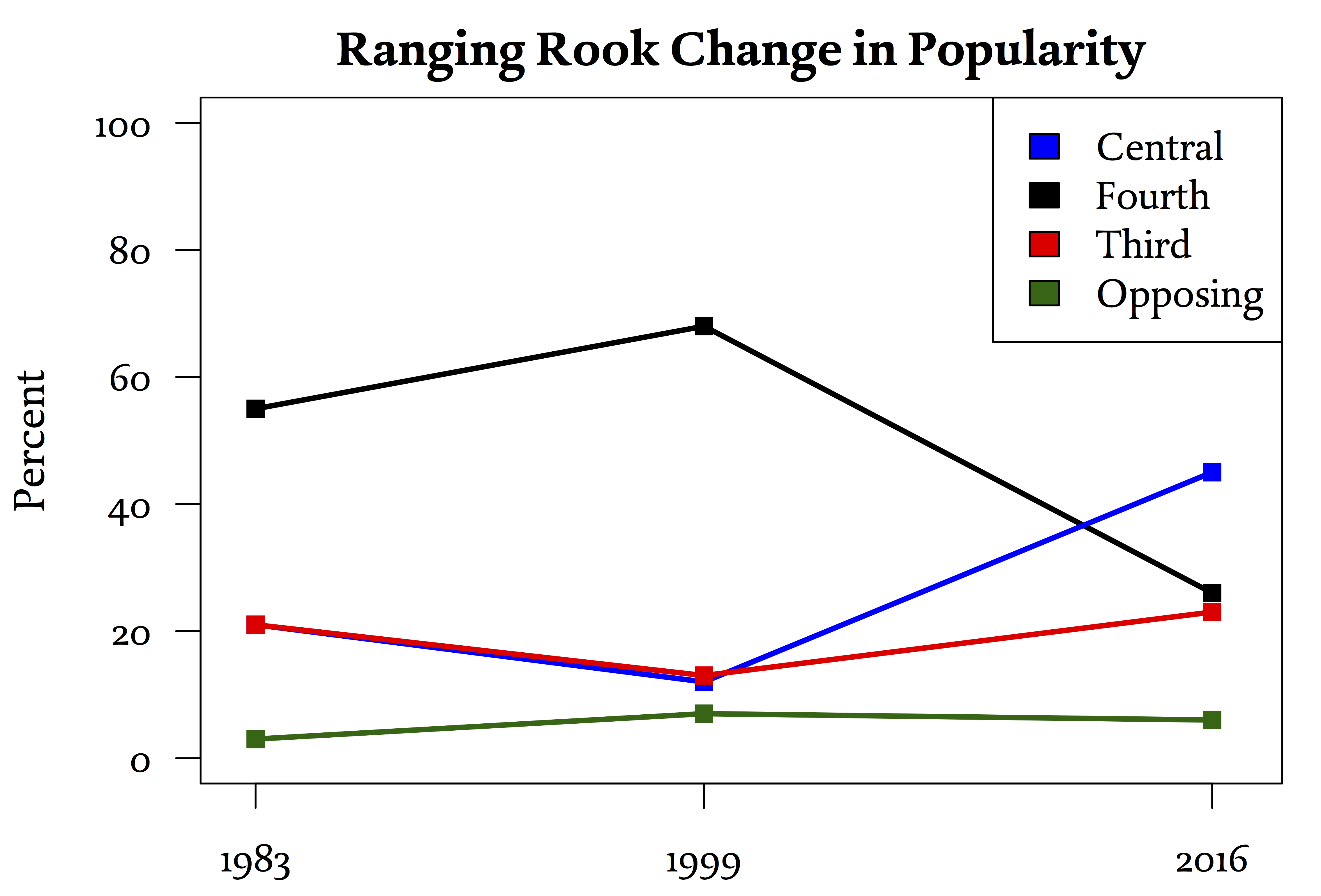 Changes in popularity of the major 振り飛車 Ranging Rook openings over time at three year points.